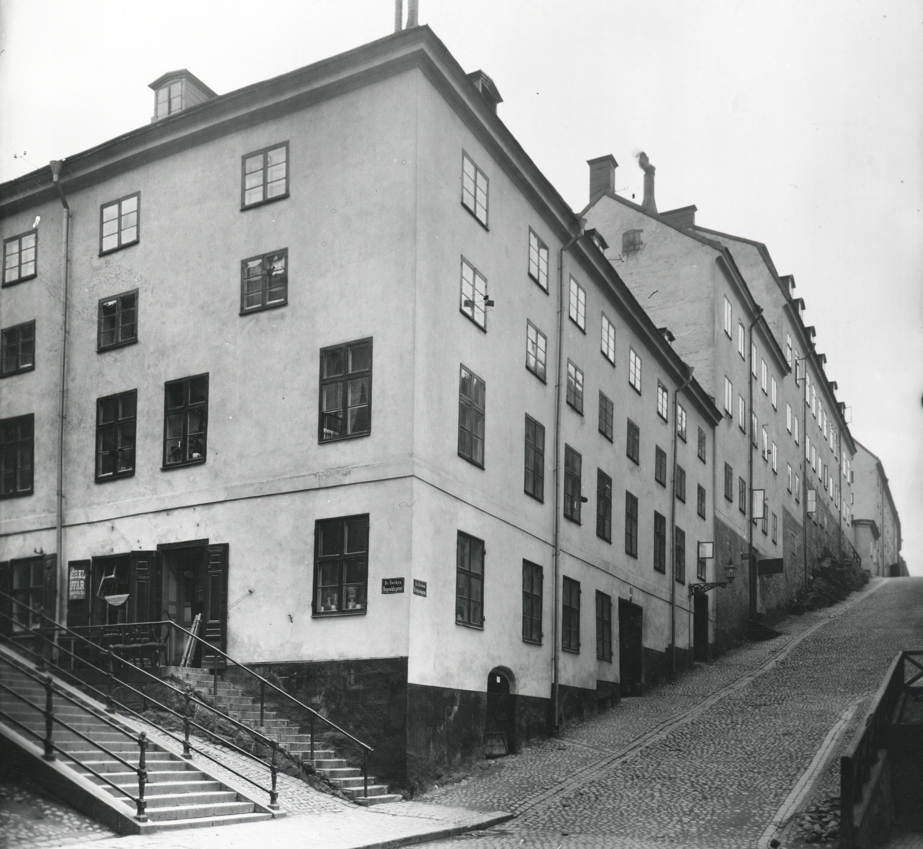 GRÅARKBrännkyrkagatan, sid. 004Hörnet Brännkyrkagatan och Ragvaldsgatan. Kvarteret Bocken, nu Stenbocken. Besvärsbacken.Stockholms stadsmuseum, Sweden GRÅARKSSAMLINGEN, GråarkStadsmuseet i Stockholm